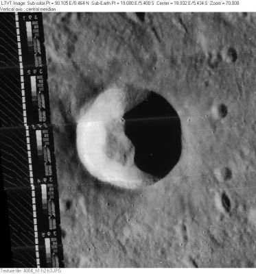 Alfraganus crater